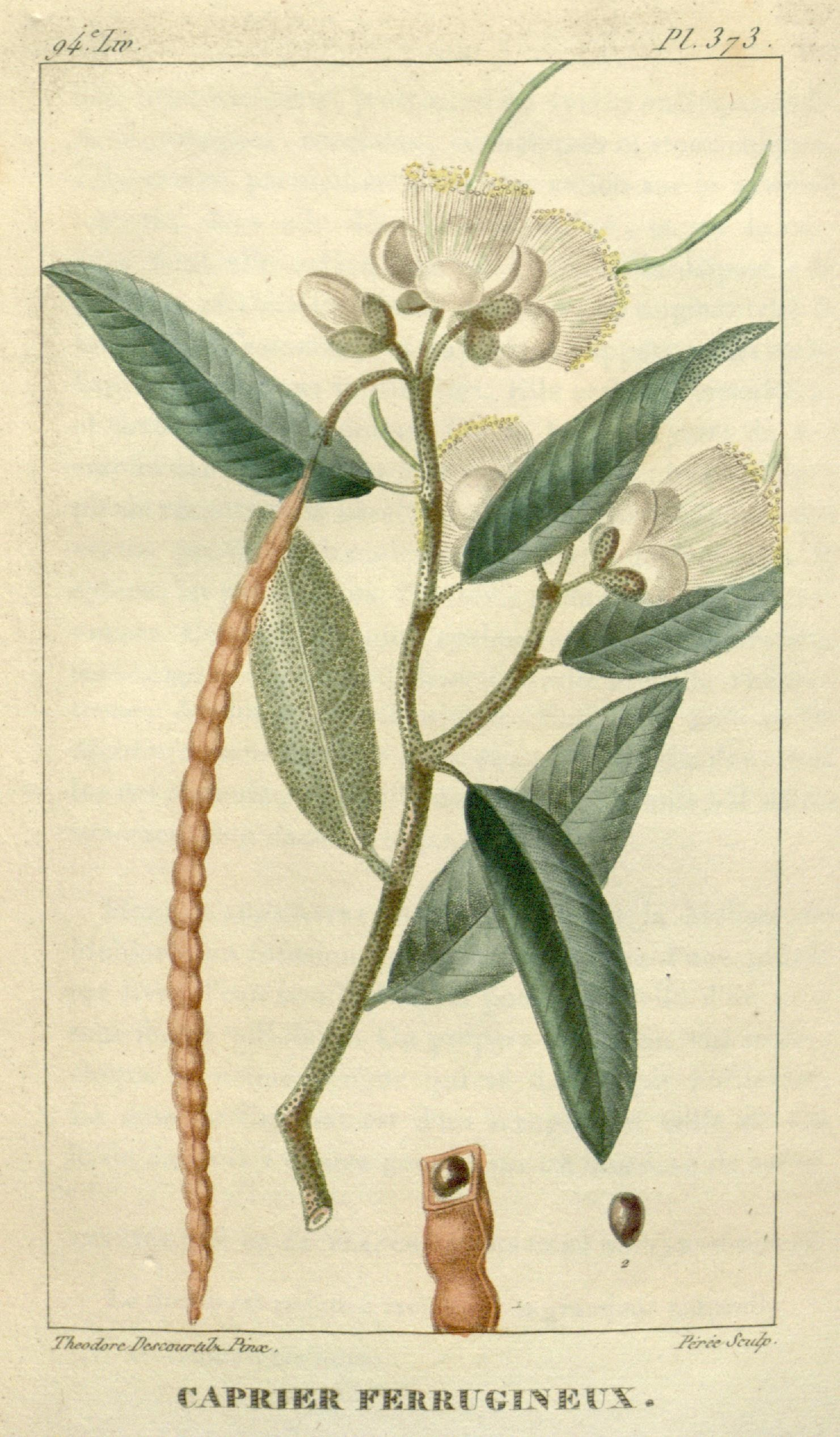 IV. 3*3 CAPRIER FERRIC; B * K CX .